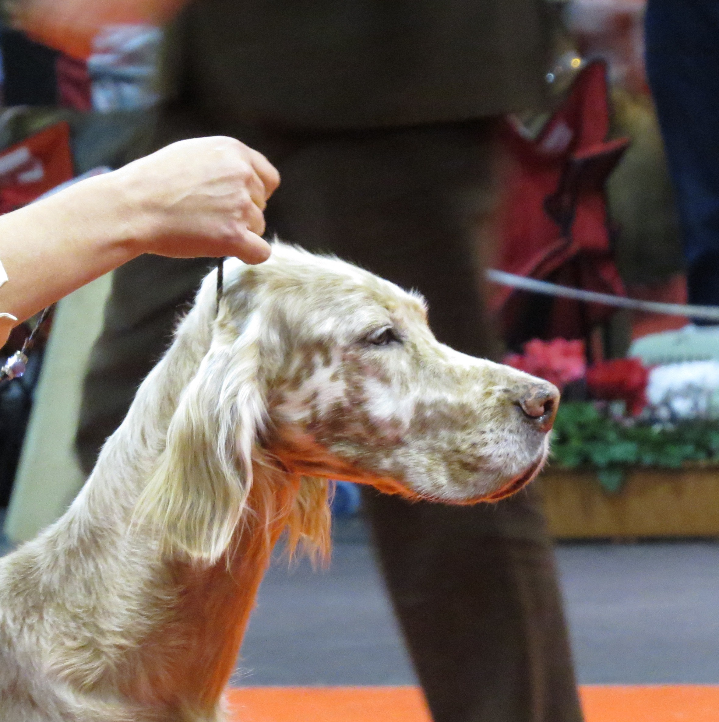 Riga, Baltic Winner -2013, 9-10 Nov